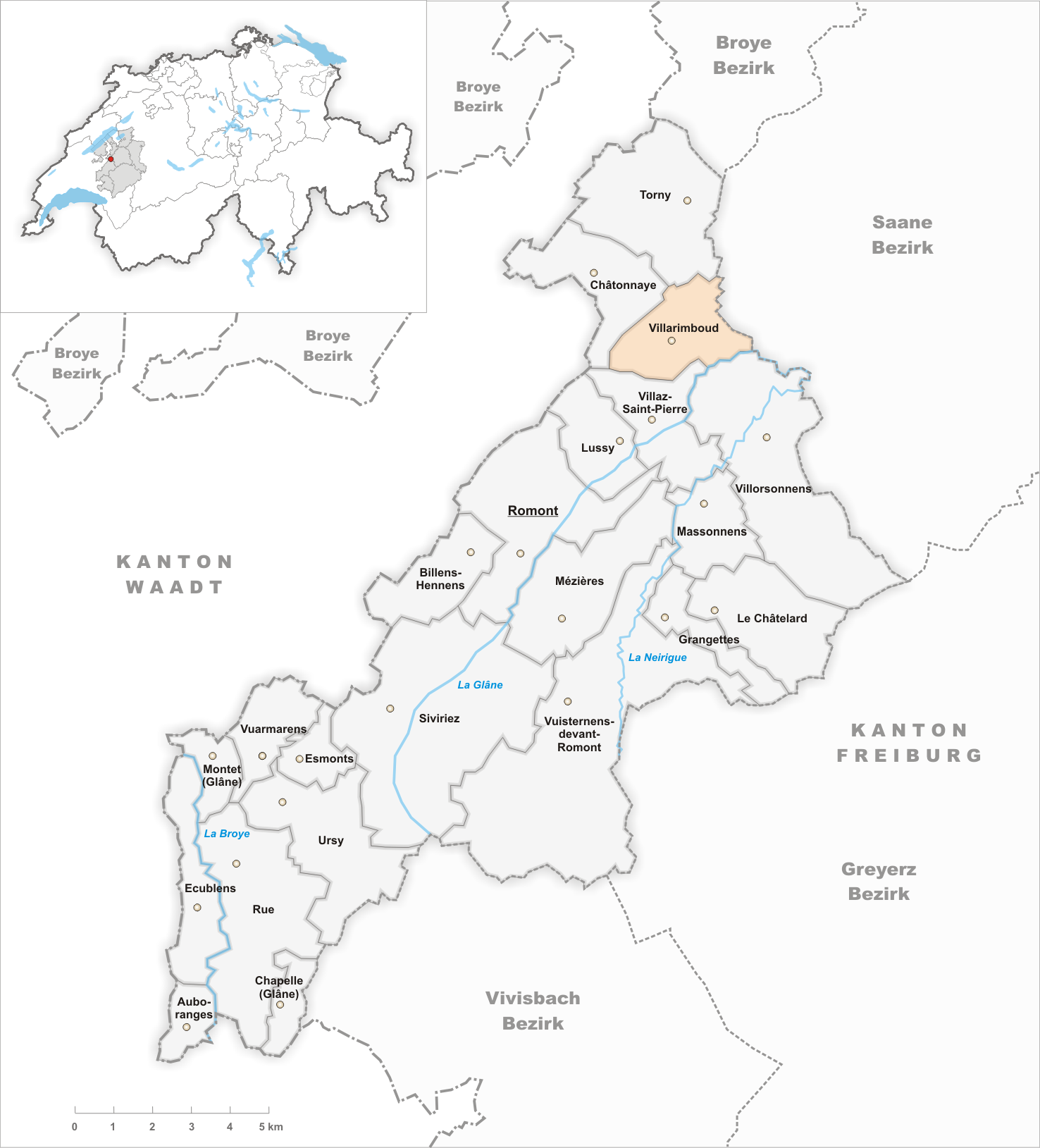 Municipality Villarimboud Artist: Tschubby